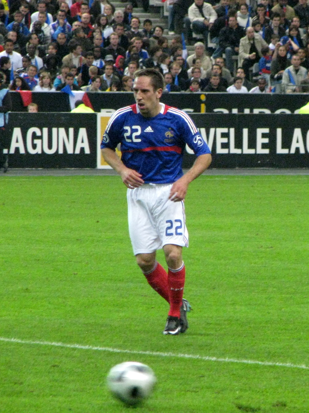 Franck Ribéry match France-Colombie